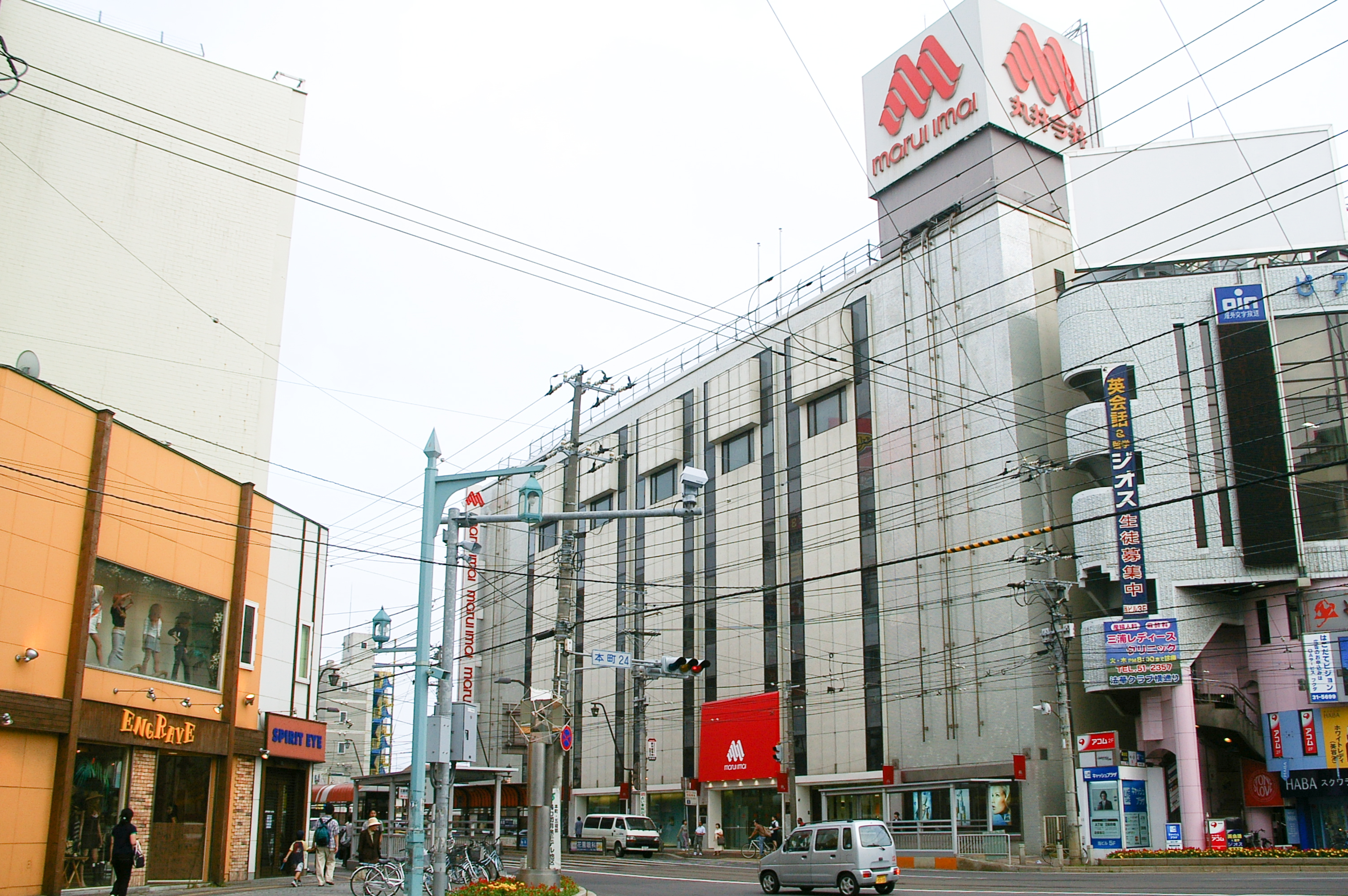 Photograph of the Hakodate branch store of Marui Imai department stores in Hakodate, Hokkaido, Japan.